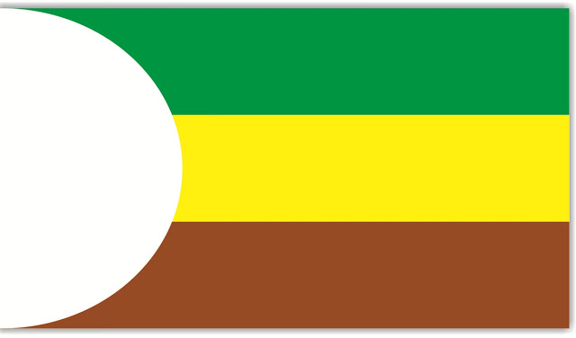 Bandera de La Peca